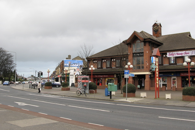 Howth Road, Killester, Dublin Probably a Norse settlement, Killester (in Irish “Cill Easra”) and its English interpretation would to seem mean “The Church of Esra”.This would infer that someone called Esra built the church or gave land for it.